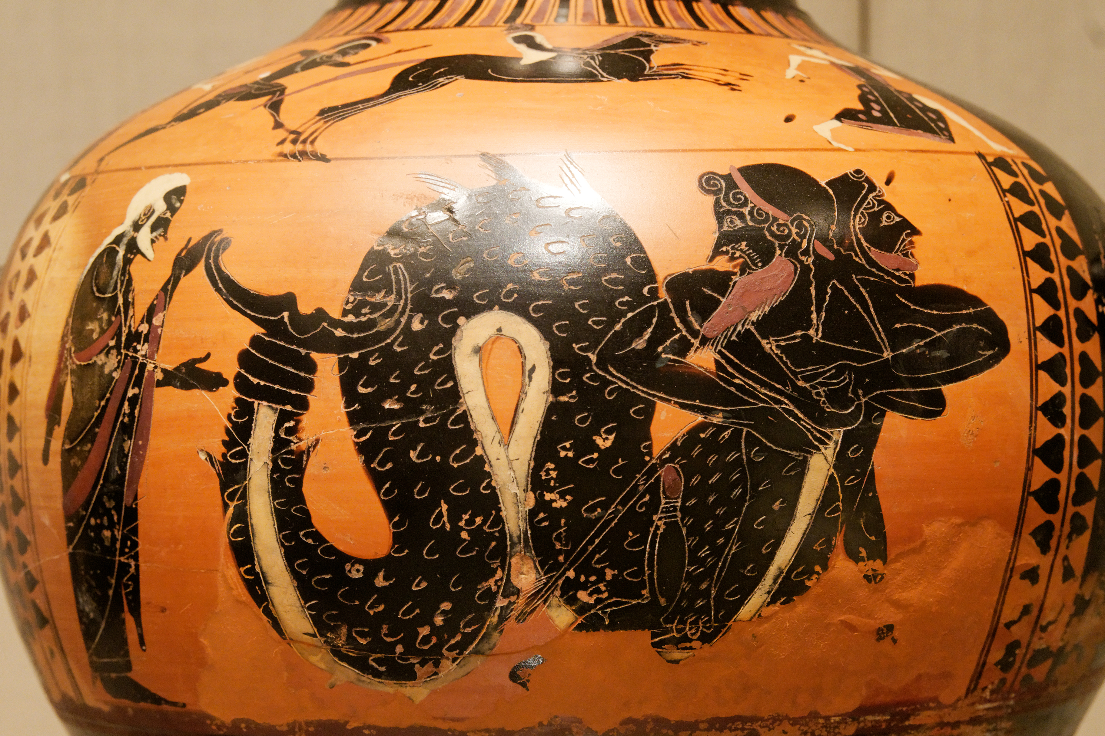 Heracles fighting Triton, belly of an Attic black-figure hydria. Shoulder: Achilles pursuing Troilos.